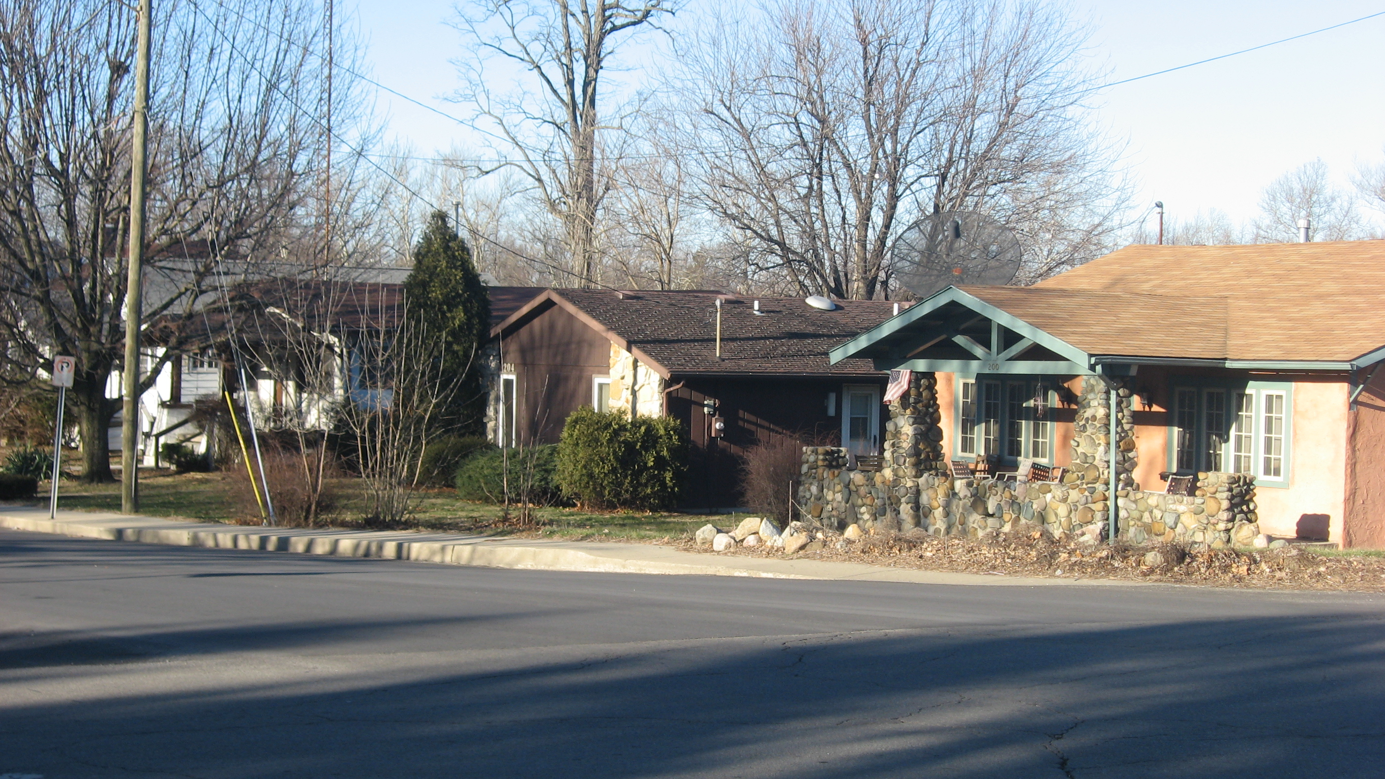 Houses on the eastern side of Meeks Avenue in Muncie, Indiana, United States. This block composes the Meeks Avenue Historic District, a historic district that is listed on the National Register of Historic Places.